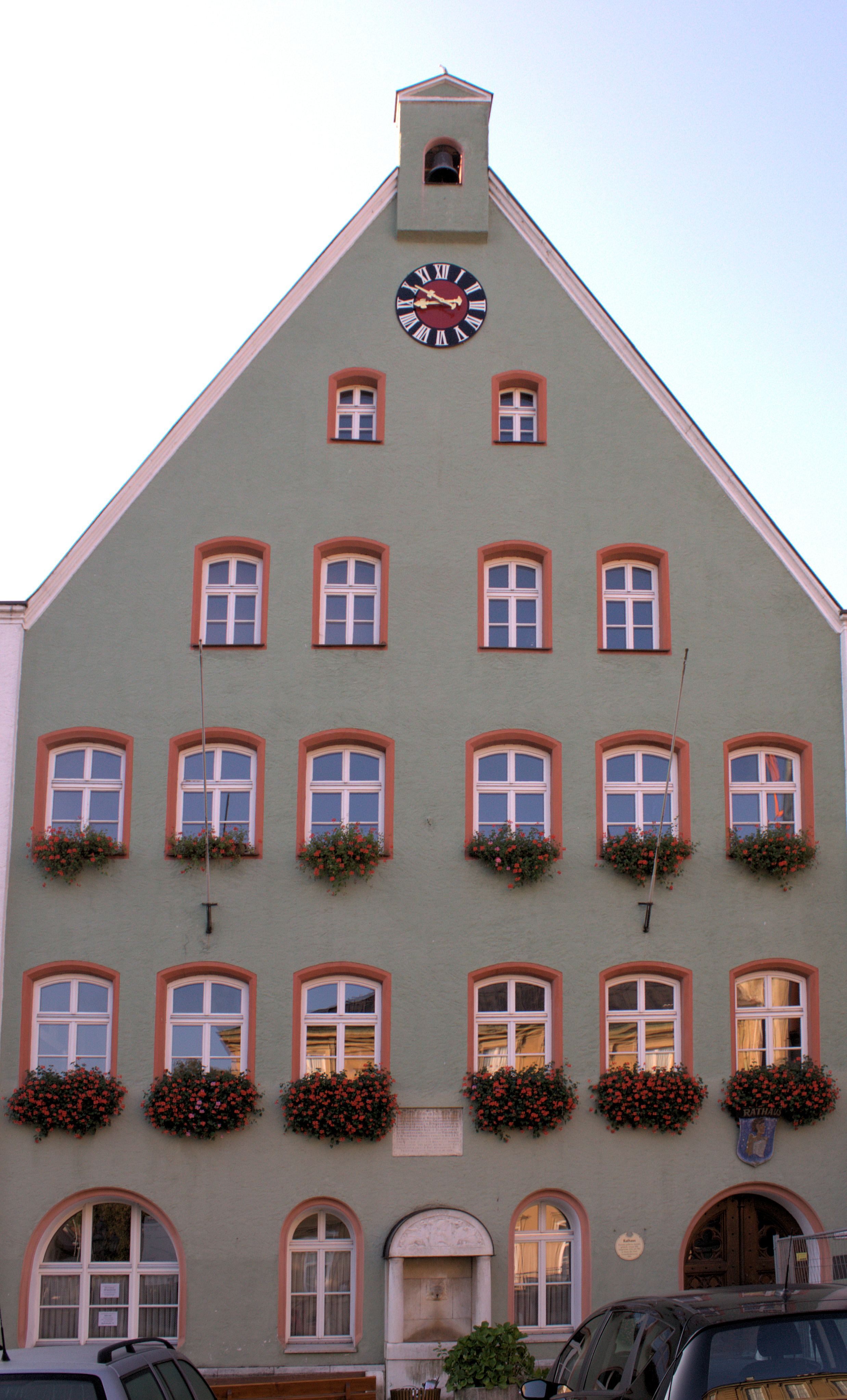 Town hall of Pappenheim, Landkreis Weißenburg-Gunzenhausen, Bavaria, Germany